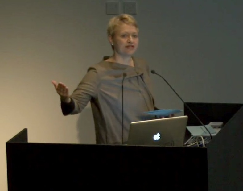 Photograph of physicist Beate Heinemann presenting the at a conference in February 2018. Permission was obtained from IPGP on March 5, 2019 to release this photograph into the public domain. Per message received via twitter: "We can release in the public domain and you can use the IPGP photo of Heinemann conference of february 2018 of this tweet if it suits you"